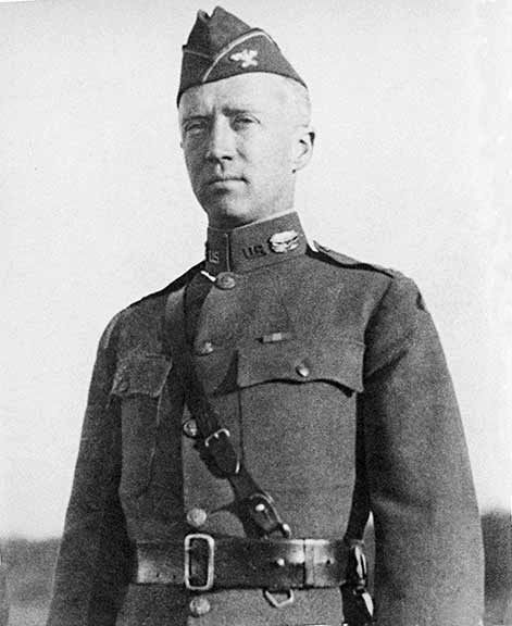 George S. Patton as a brevet Colonel at Camp Meade, Maryland in 1919 or 1920.